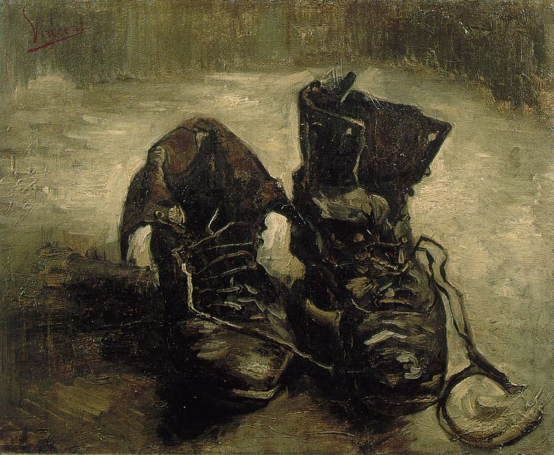 A pair of shoes